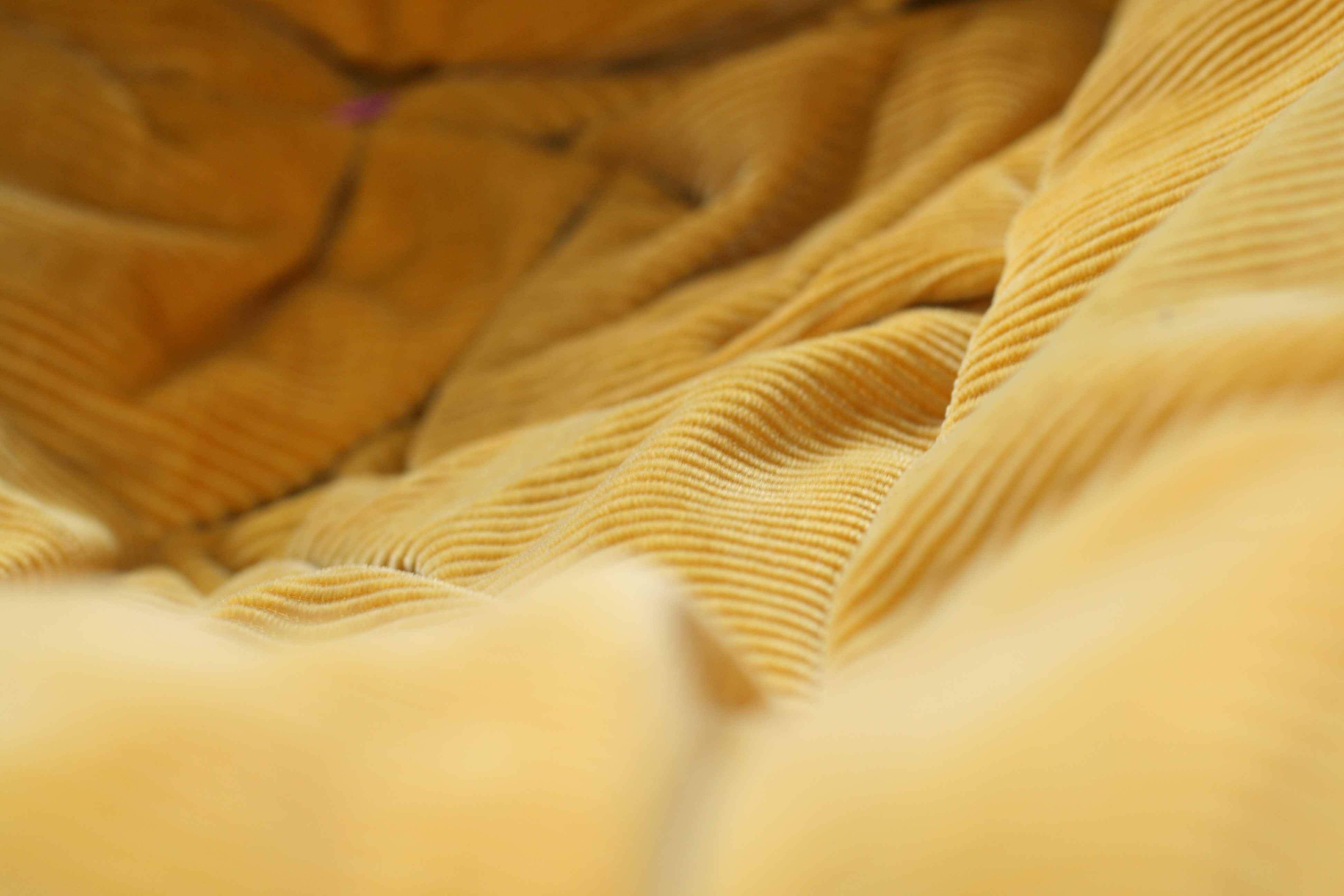 Yellow corduroy.Velvet